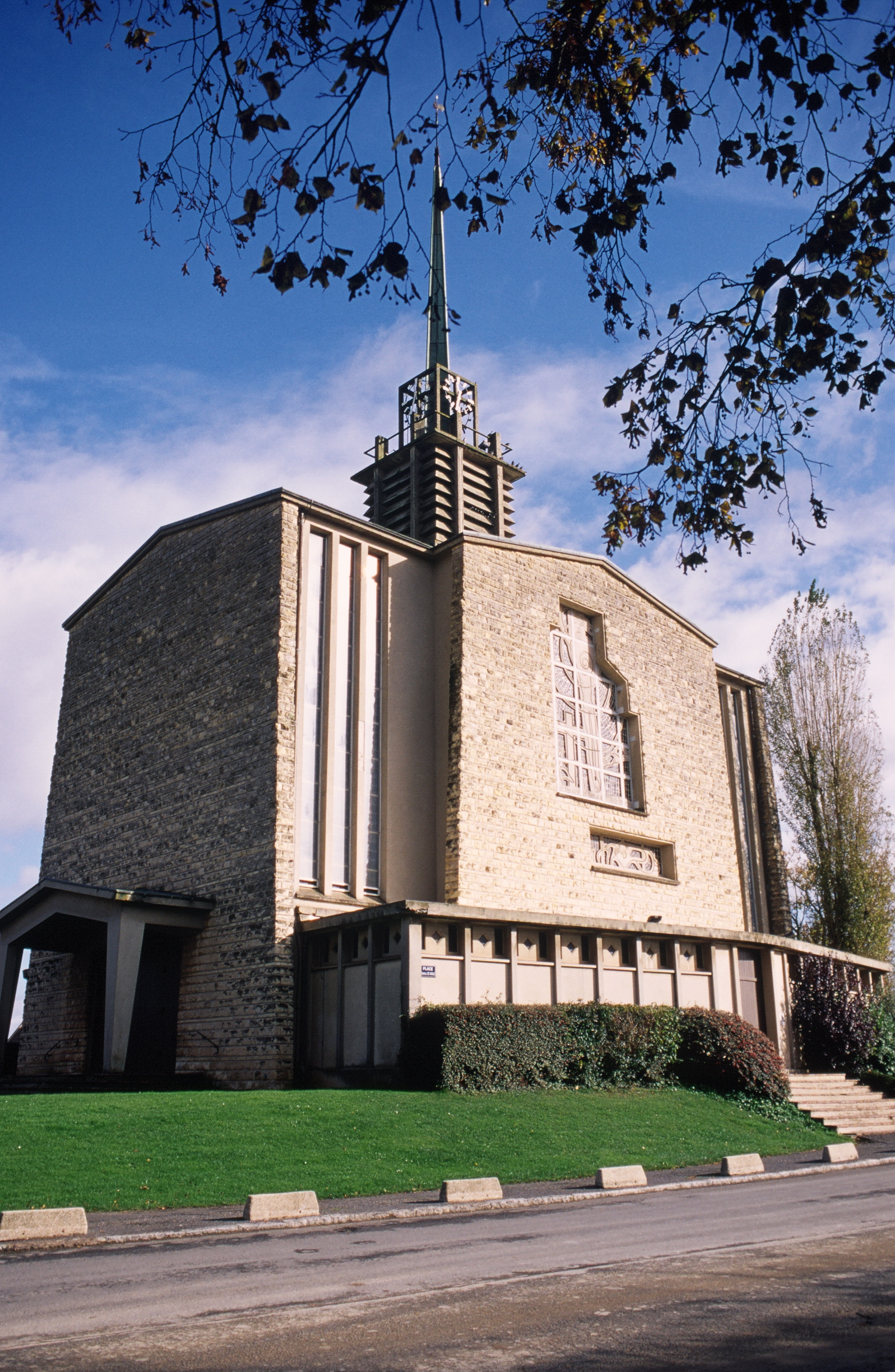 Church of May-sur-Orne, village in Calvados (14)France